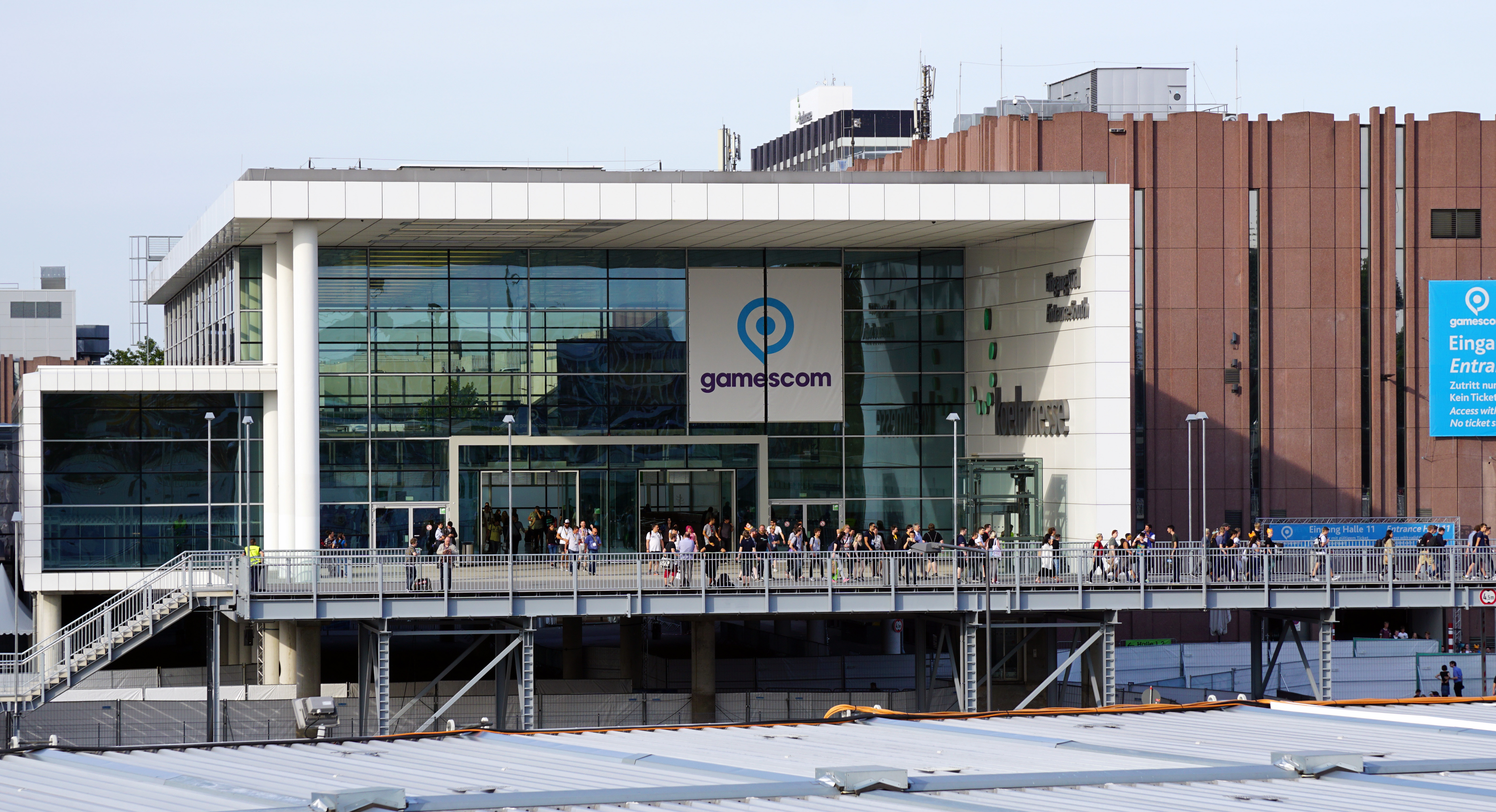 South Entrance during gamescom 2017